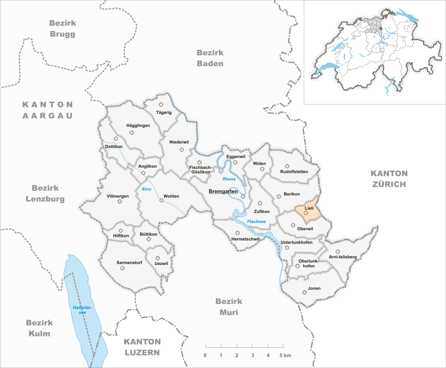 Municipality Lieli